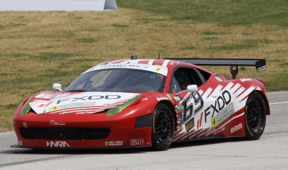 The AIM Autosport Team FXDD GT car driven by Emis Assentato and Jeff Segal at a 2012 race at Road America.